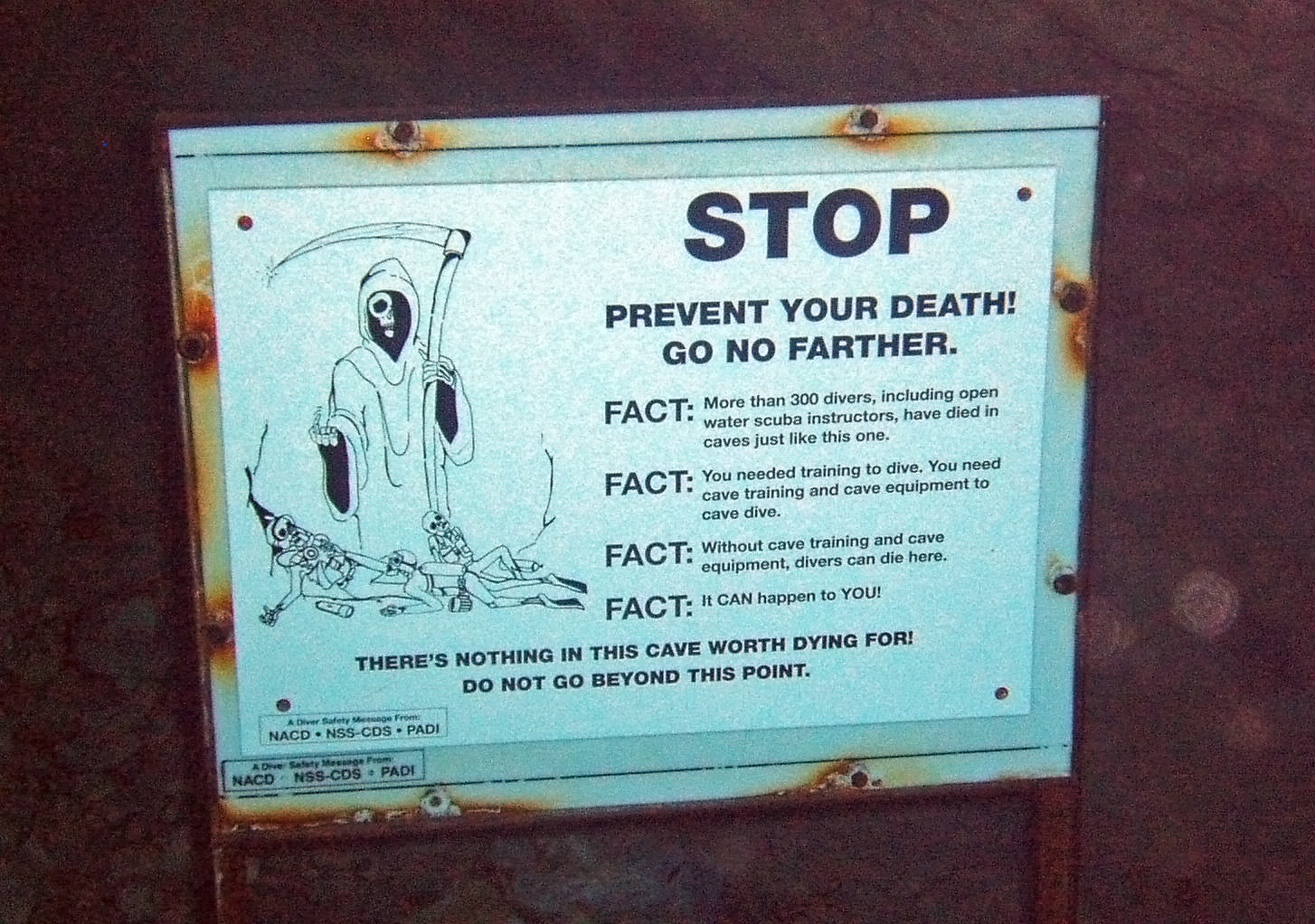 Sign warning divers without cave certification to stay out of the cave at Vortex Spring, FL, USA.